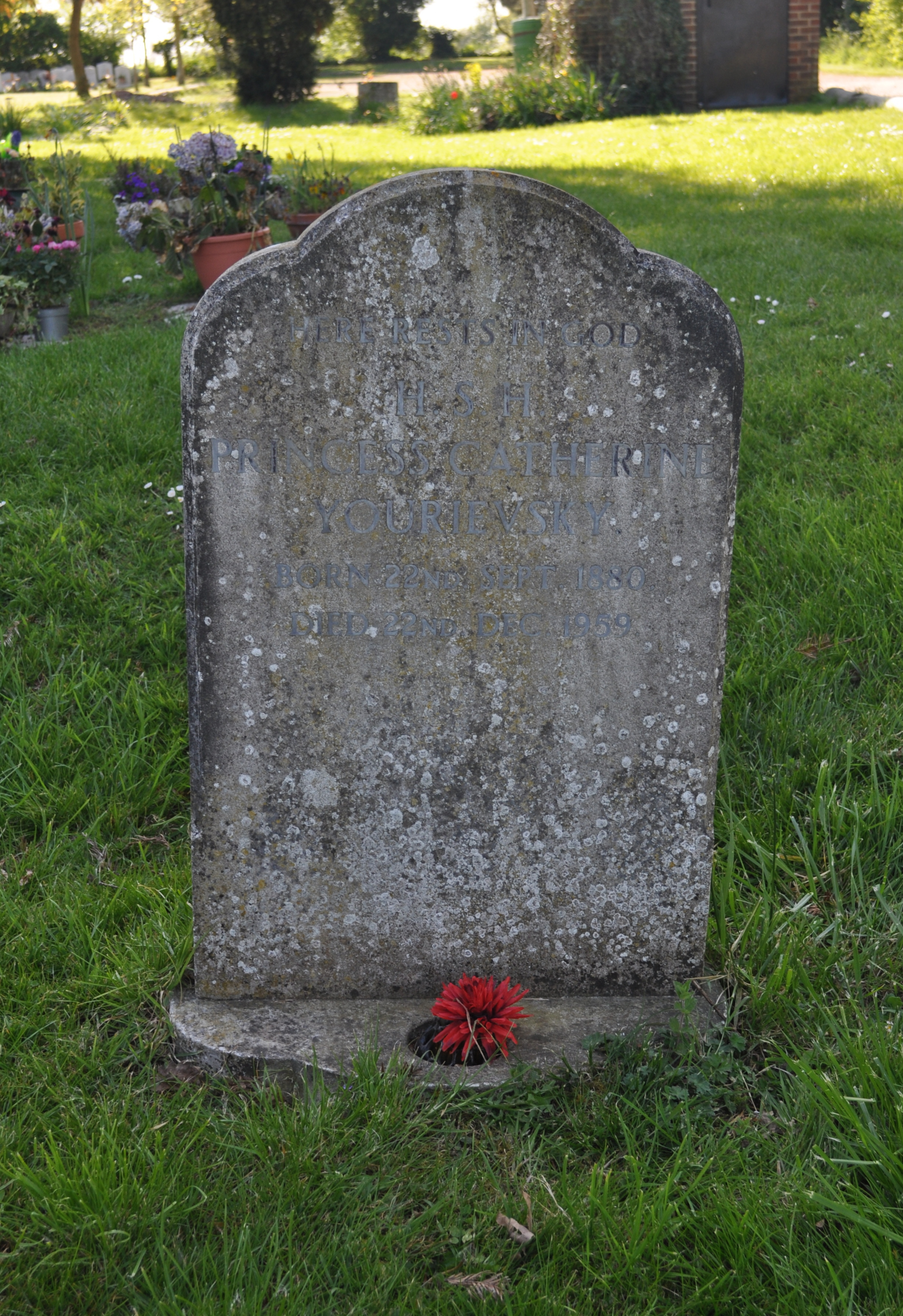 St Peter's Church, Hayling Island